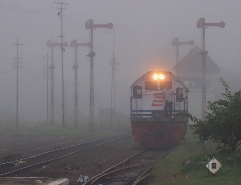 Diesel loco CC 201 74 (retrofit), from Indonesia